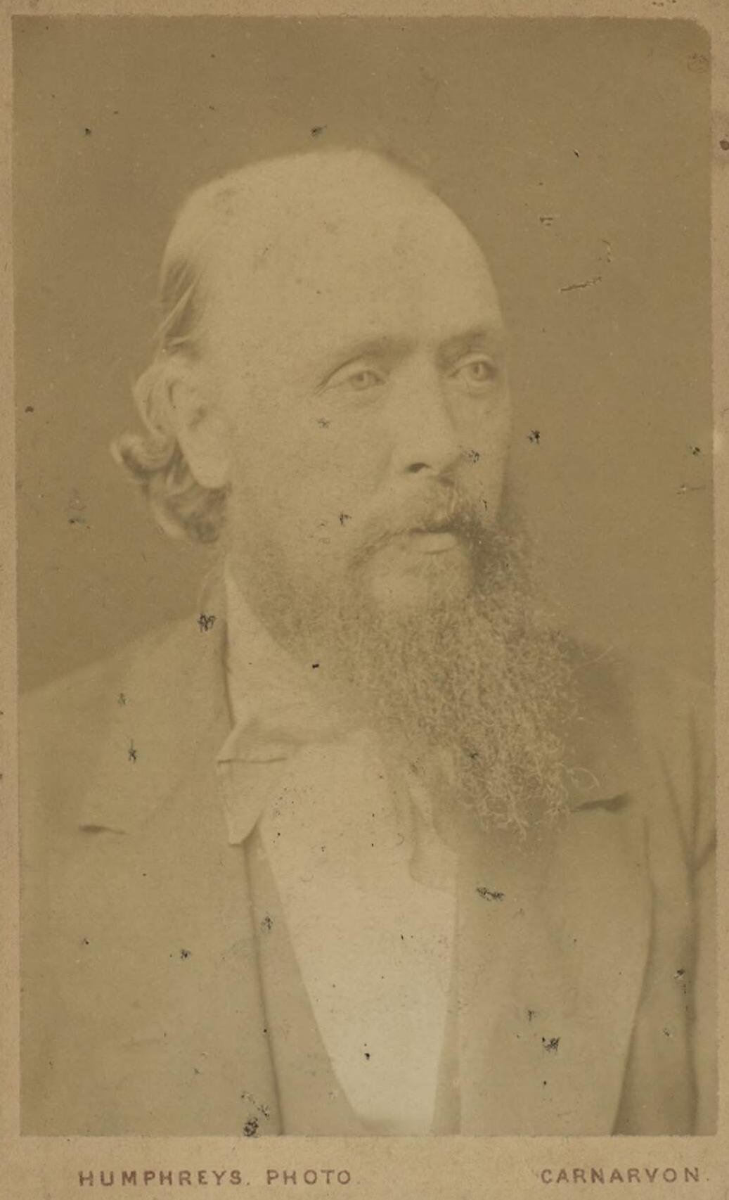 A portrait from the Welsh Portrait Collection at the National Library of Wales. Depicted person: Richard Davies – Welsh poet (Mynyddog), born 1833